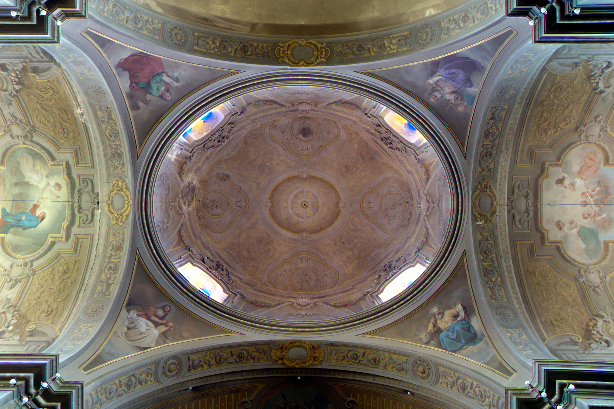 Dome of San Biagio Church in Cento